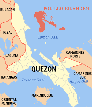 Map of the Polillo Island Group in Quezon Province, Philippines